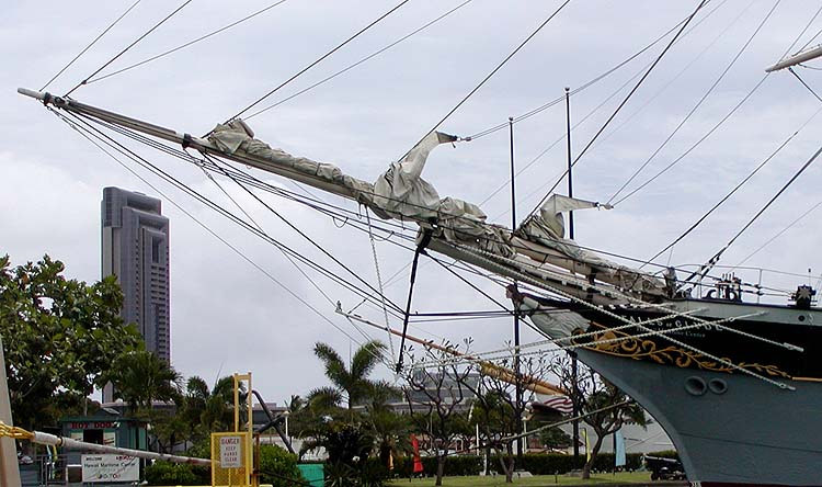 Bowsprit of the Falls of Clyde